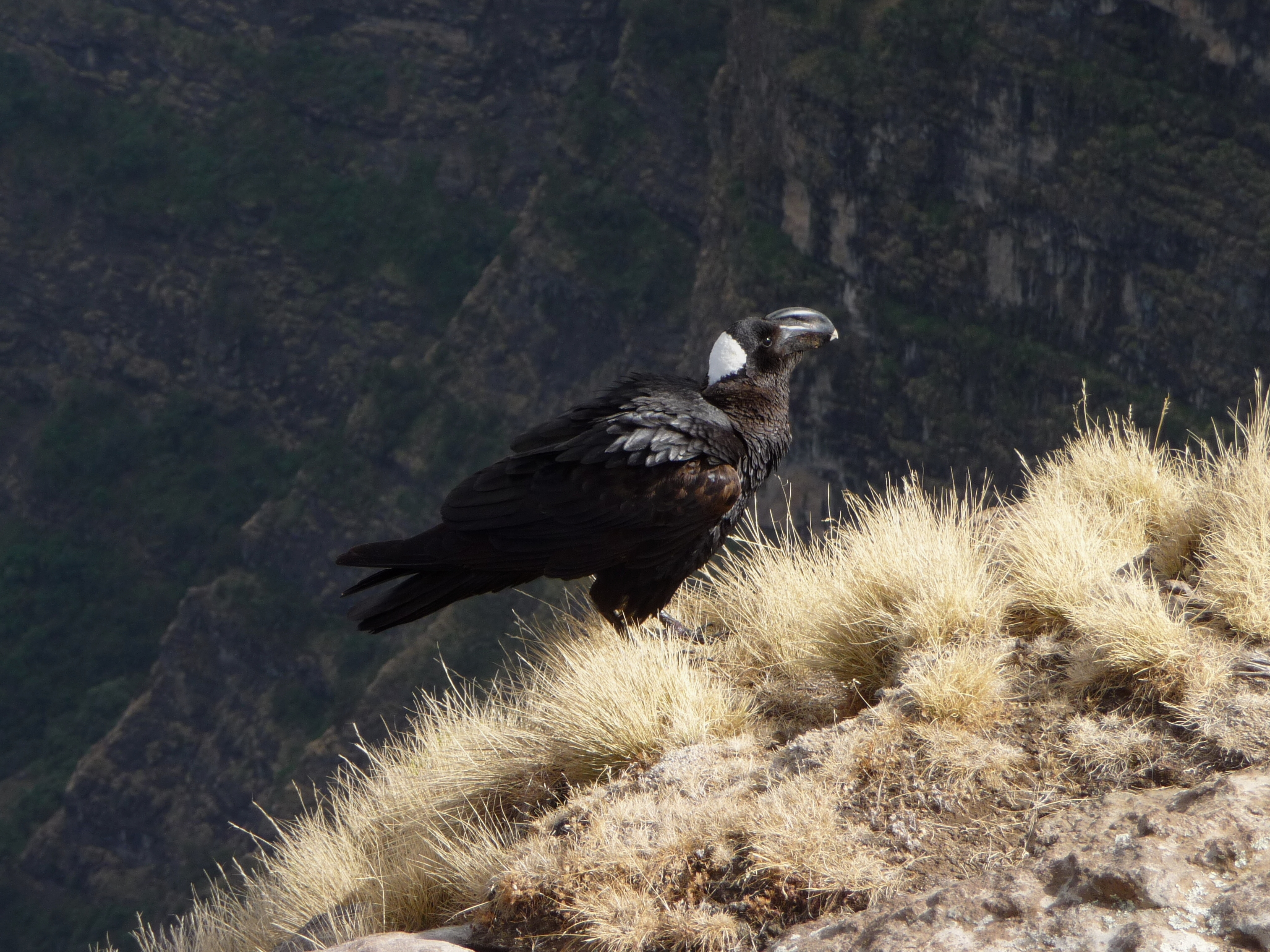 A Thick-billed Raven (corvus crassirostris) near the top of Imet Gogo in the Simien Mountains (Amhara Region, Ethiopia).